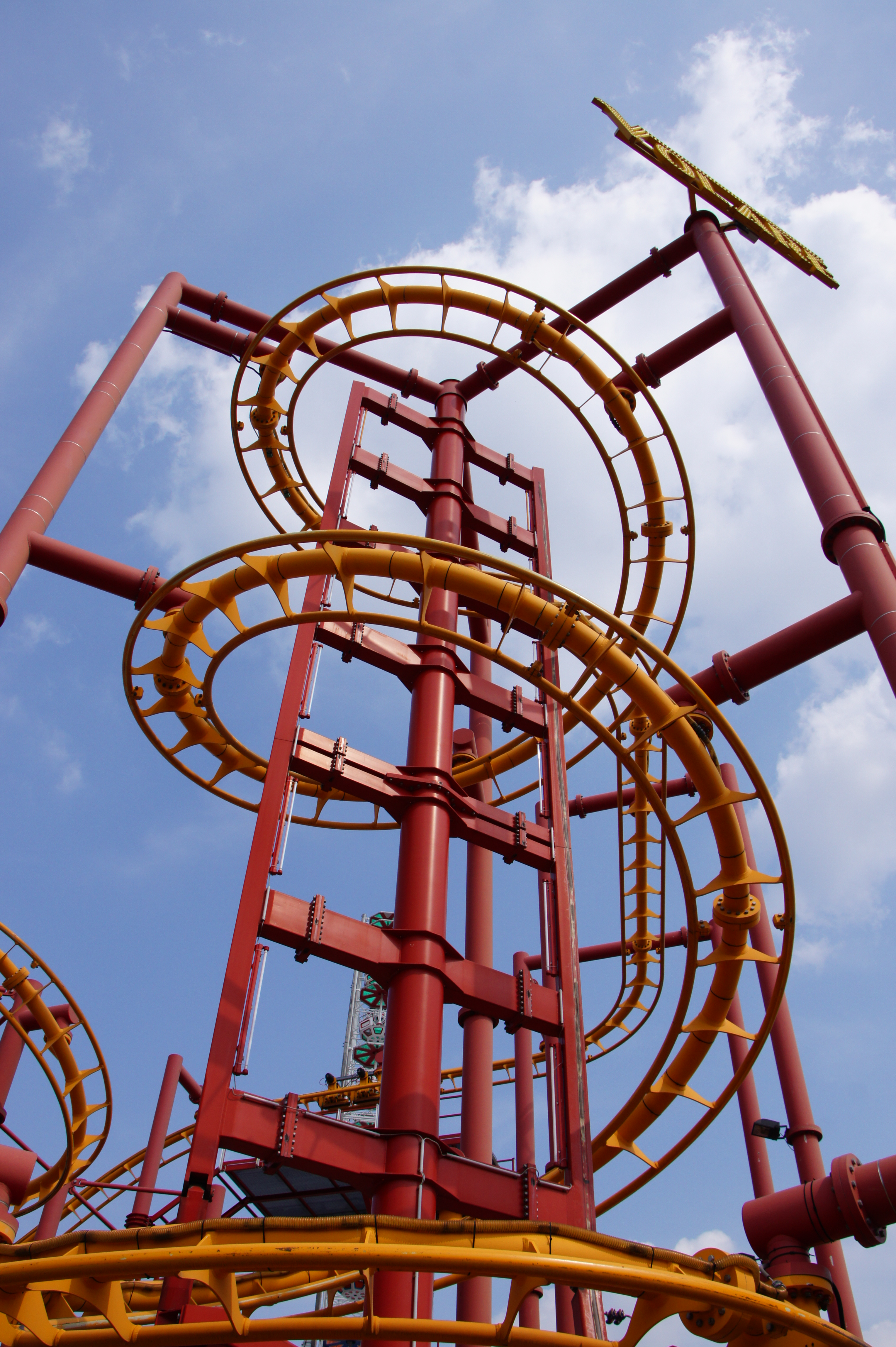 Flying roller coaster Volare in the Wiener Prater using a spiral elevator system.